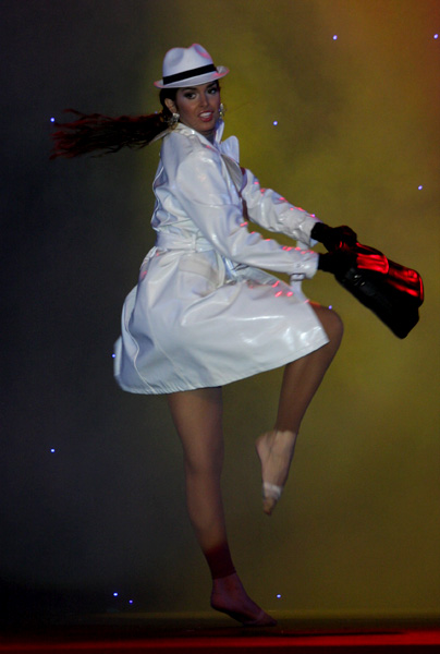 Miss Gibraltar 2008 Krystel Robba during Miss World 08 in Johannesburg